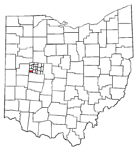 Adapted from Wikipedia's OH county maps. Created by SwissCelt.